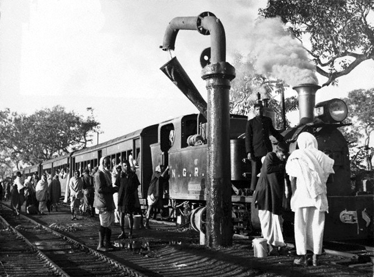 Train belonging to Nepal Government Railway (NGR) in the 1950s.